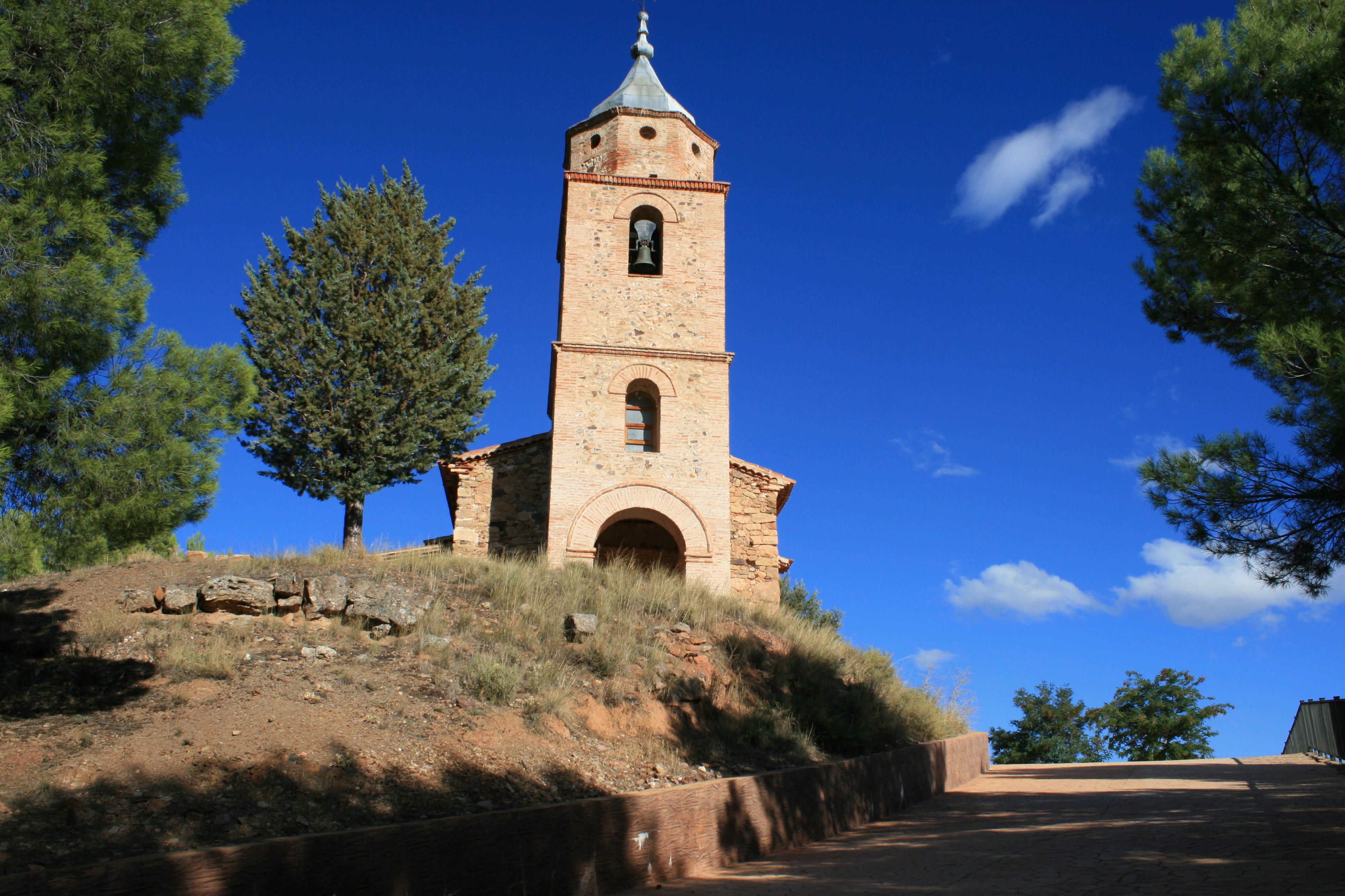 Hermitage of Our Lady of Semón, Acered, Zaragoza, Spain